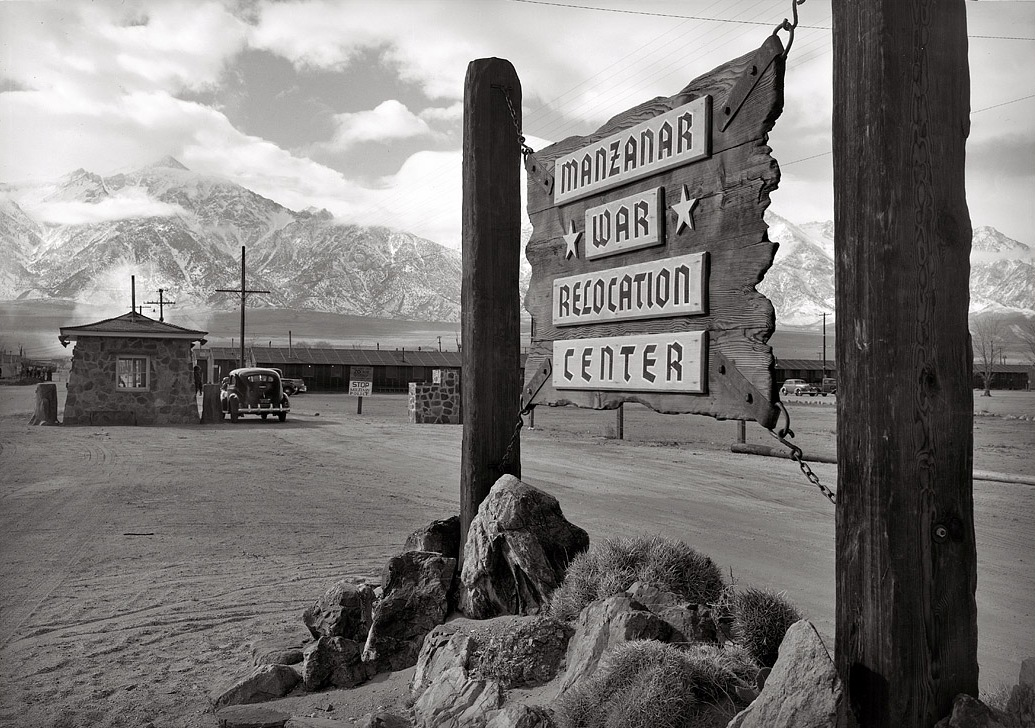 Wooden sign at entrance to the Manzanar War Relocation Center with a car at the gatehouse in the background.